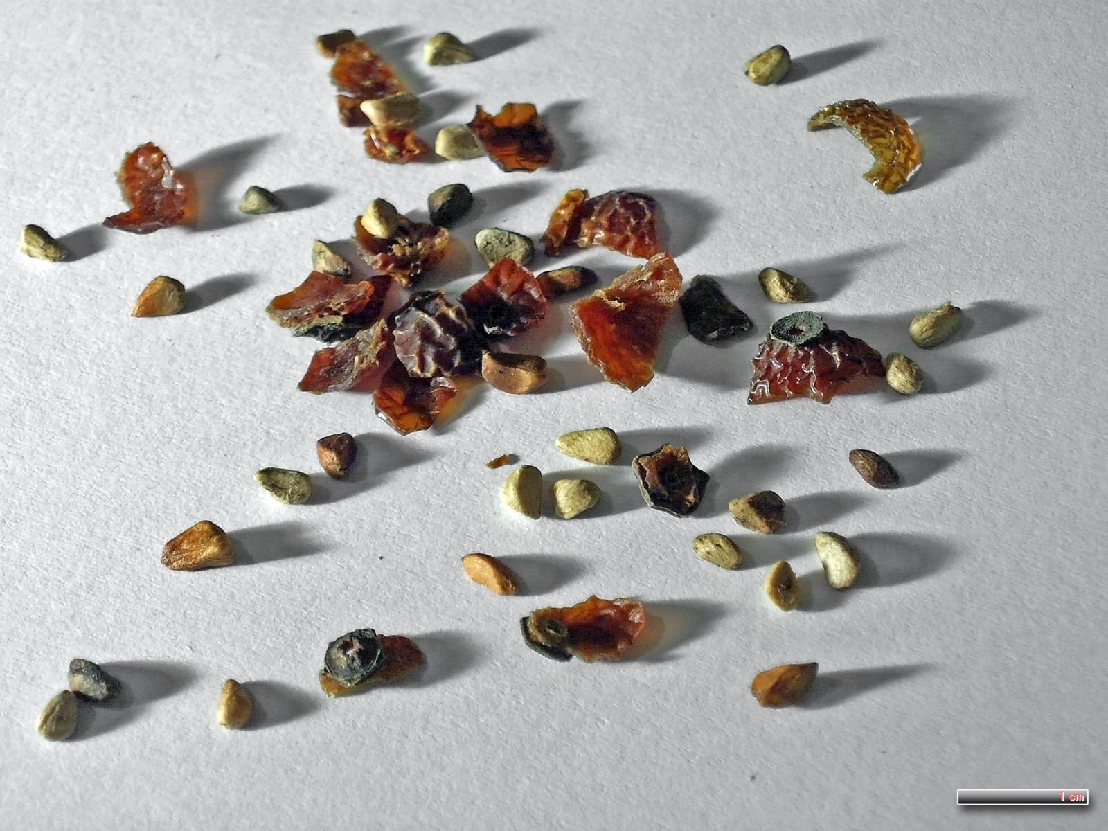 dried Rosa canina (lit. Dog Rose) Fruits